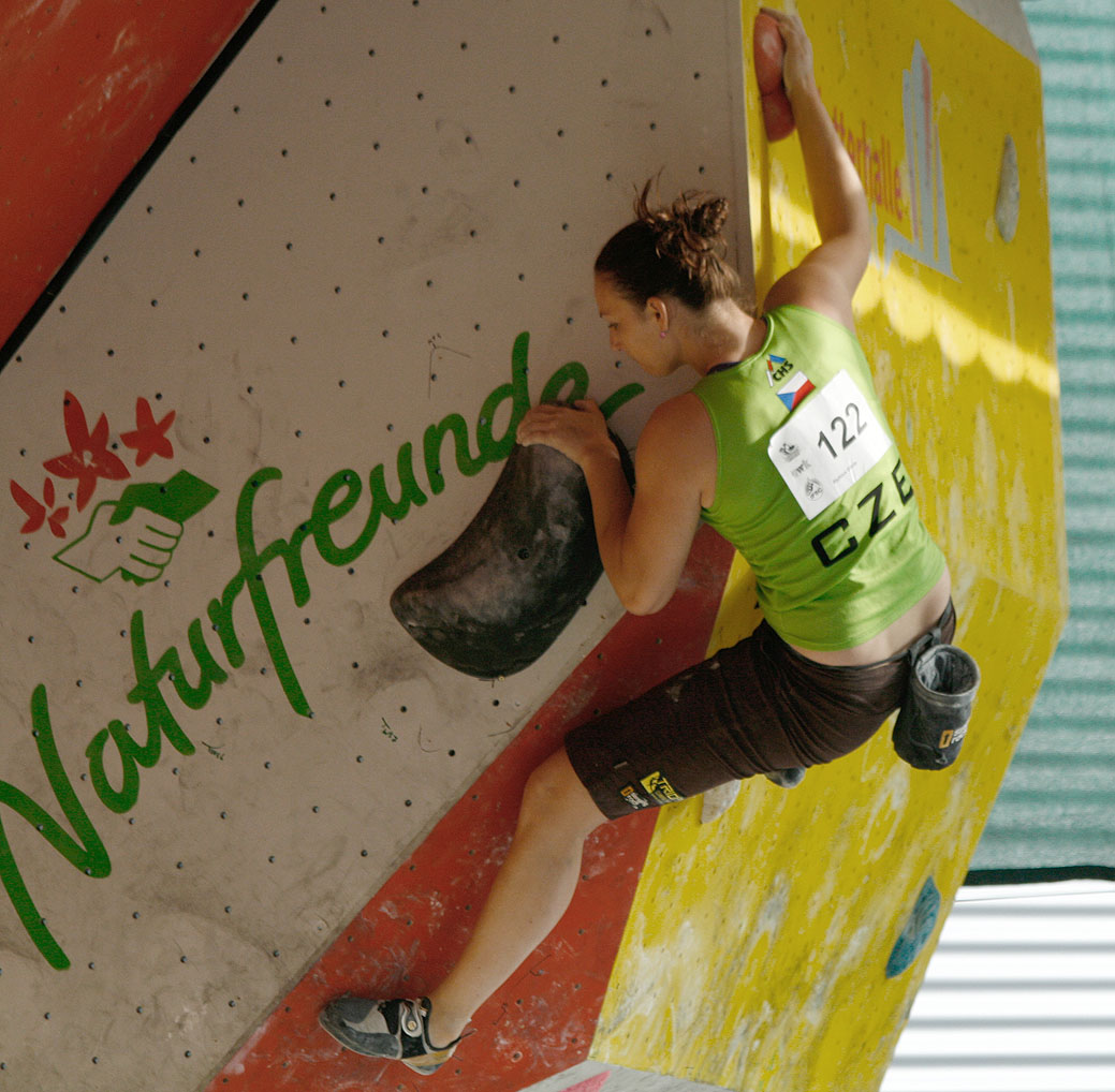 Silvie Rajfová during qualifications at the IFSC Boulder Worldcup Vienna 2010.